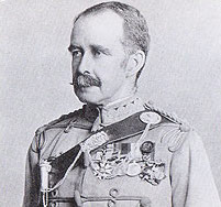 William Hope Meiklejohn during the time of the Siege of Malakand taken from BBC article. Copyright expired